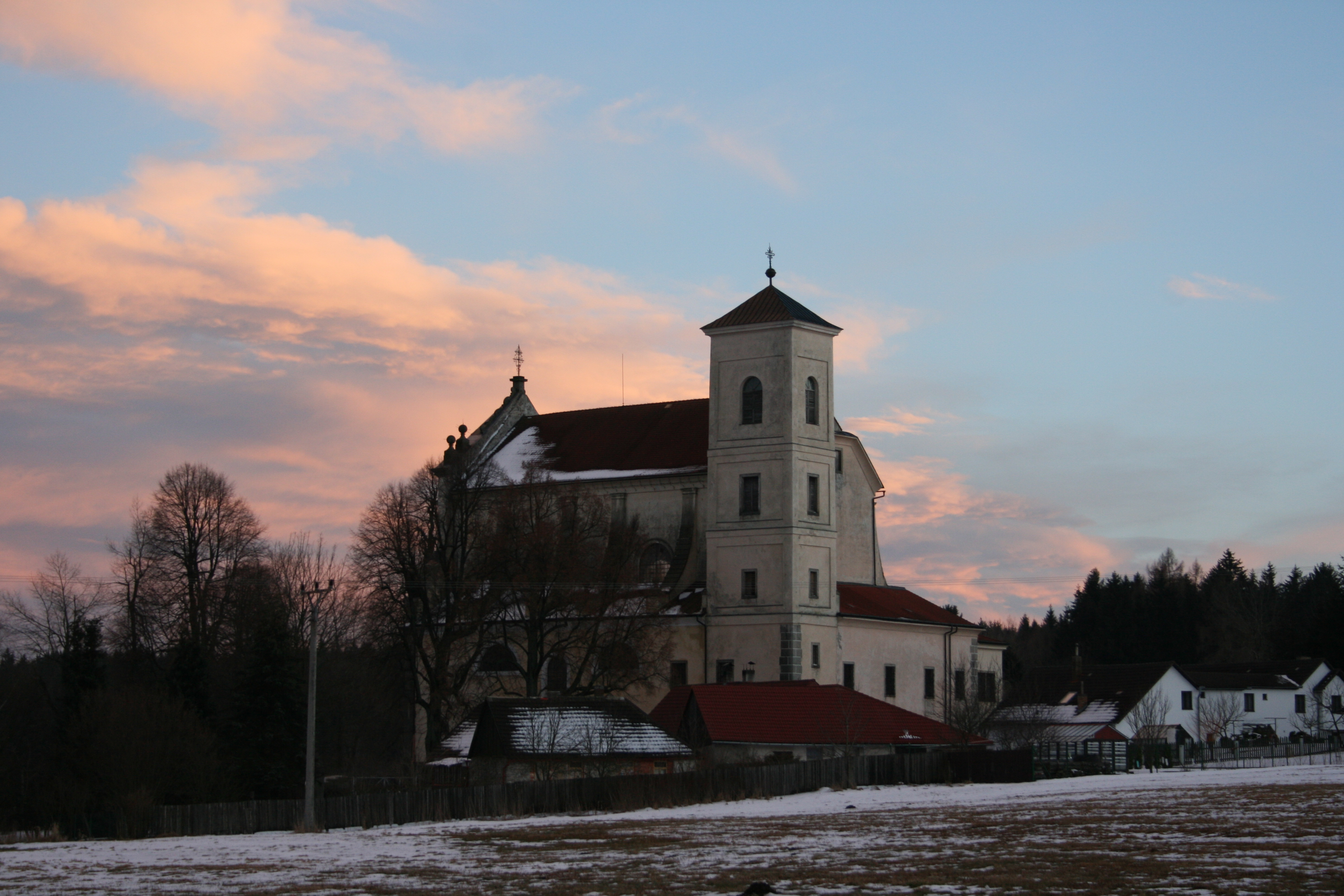 Klášter, part of Nová Bystřice, Jindřichův Hradec district, Czech Republic.